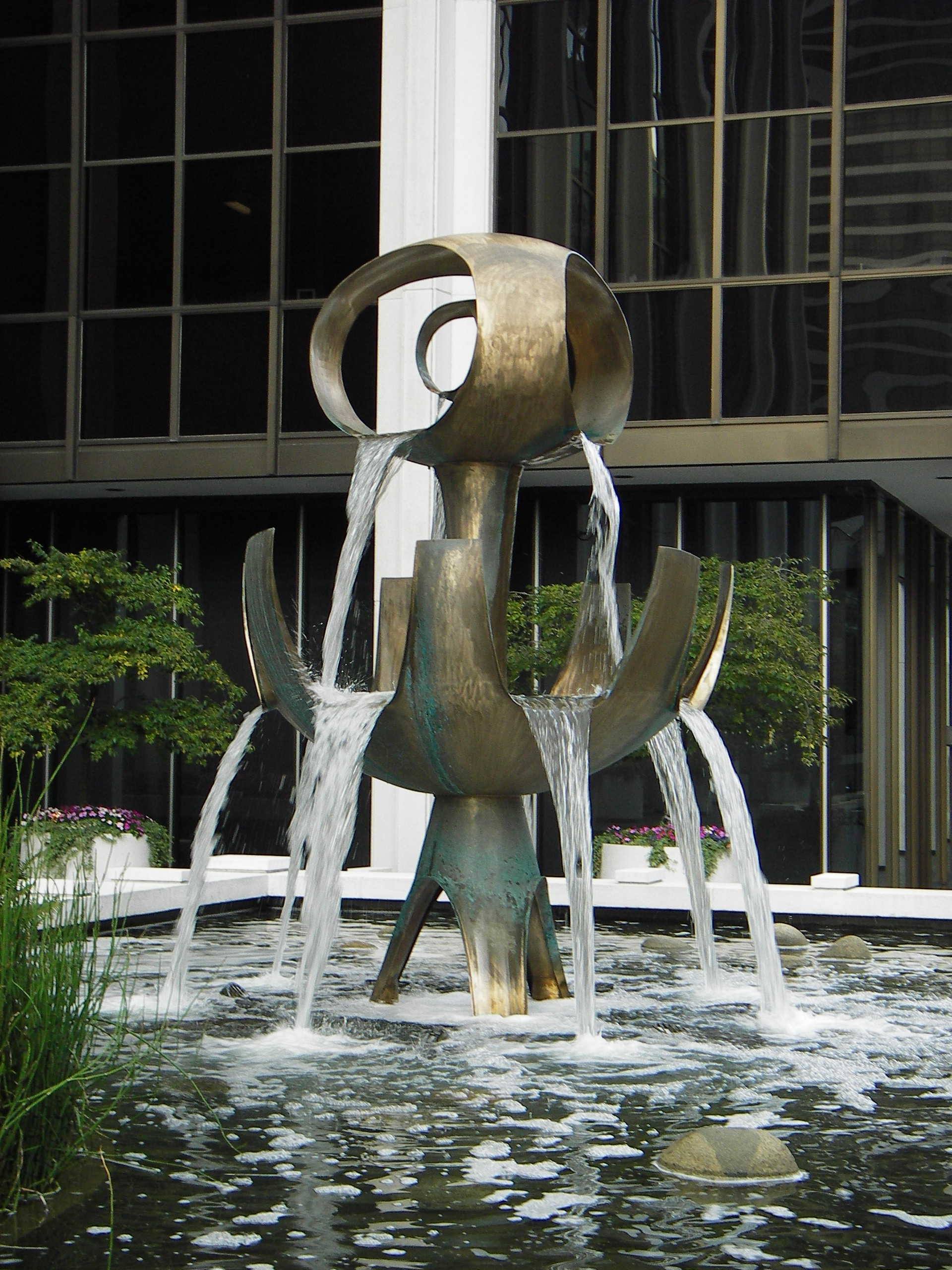 Fountain of the Pioneers by George Tsutakawa at Bentall Centre in downtown Vancouver/Canada.